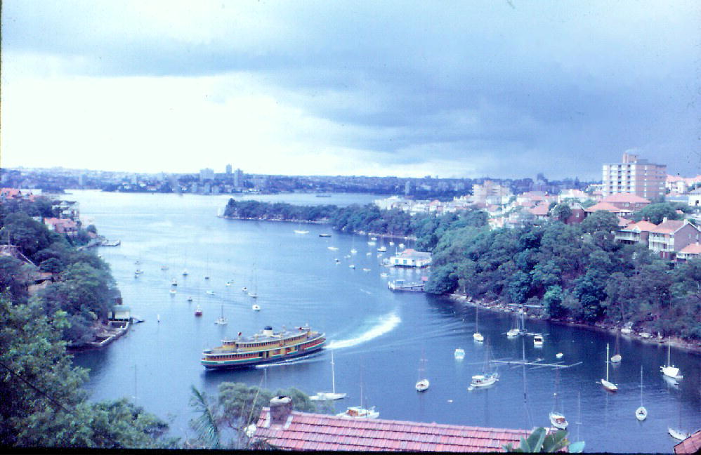 Sydney Ferry KANANGRA in Mosman Bay 1966 Graeme Andrews, Ferry KANANGRA nears Mosman Wharf. Late Fred Saxon. (01/02/1966 - 28/02/1966), [A-00080292]. City of Sydney Archives, accessed 07 Mar 2020